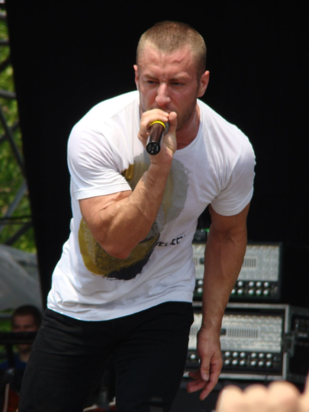 Gods of Metal 2008